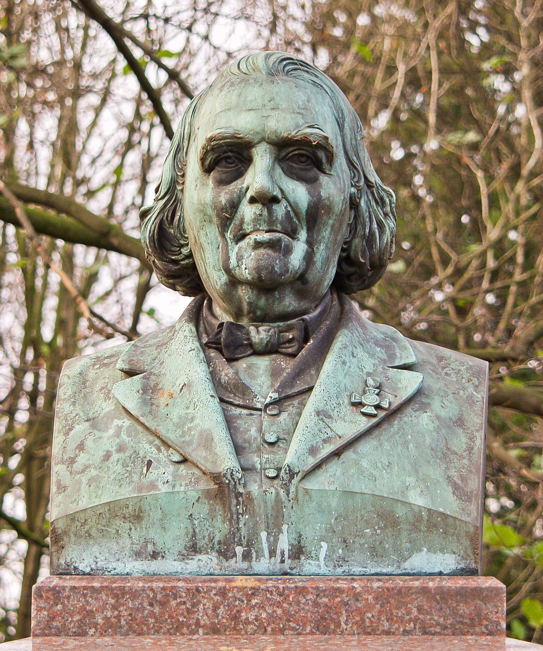 Bust of Caspar Garthe, founder of Cologne Zoo, on a pedestal